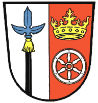 Coat of Arms of Mönchberg